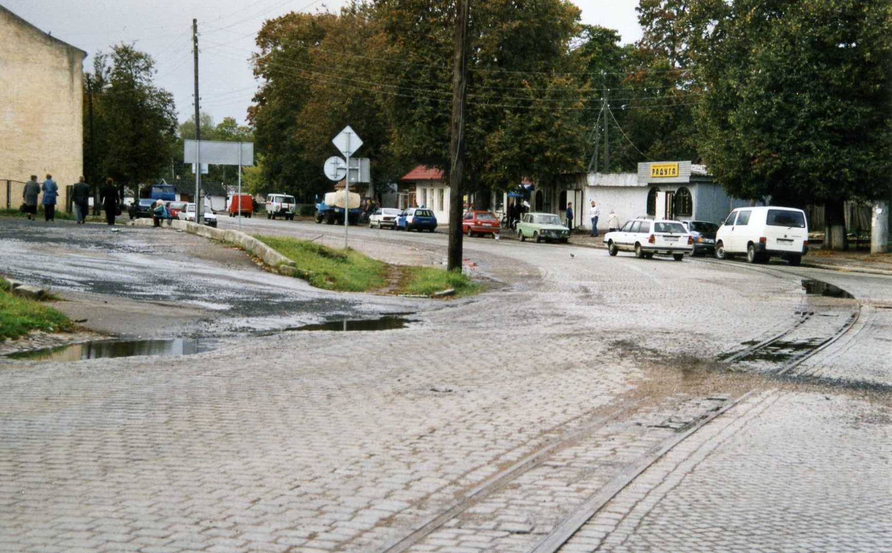 Remains of the former narrow gauge railway in Bolshkovo, Kaliningrad Oblast, Russia (former Groß Skaisgirren, East Prussia